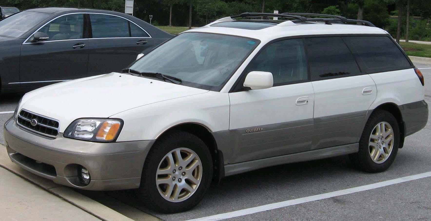 2000-2004 Subaru Outback photographed in USA.